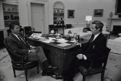 President Ronald Reagan, Bob Michel, William Broomfield, John Erlenborn, Del Latta, Robert McClory, Chalmers Wylie, and Jack Edwards (Not in all photos) (2A-8A) Meeting with Republican Congressman to discuss House/Senate Tax Bill President Ronald Reagan and Bill Green (9A-14A) Meeting with Congressman Bill Green to discuss House/Senate Tax Bill President Ronald Reagan, Bob Michel, Lawrence Coughlin, William Clinger, Charles Dougherty, Arlen Erdahl, Tom Railsback, George Bush, and Ken Duberstein (15A-26A) Meeting with Republican Congressman to discuss House/Senate Tax Bill